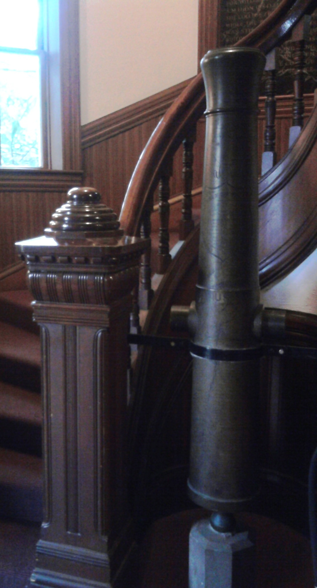 Cannon captured by the 21st Massachusetts Infantry during the Battle of New Bern, North Carolina and donated by the U.S. Army to Amherst College in memory of Frazar A. Stearns